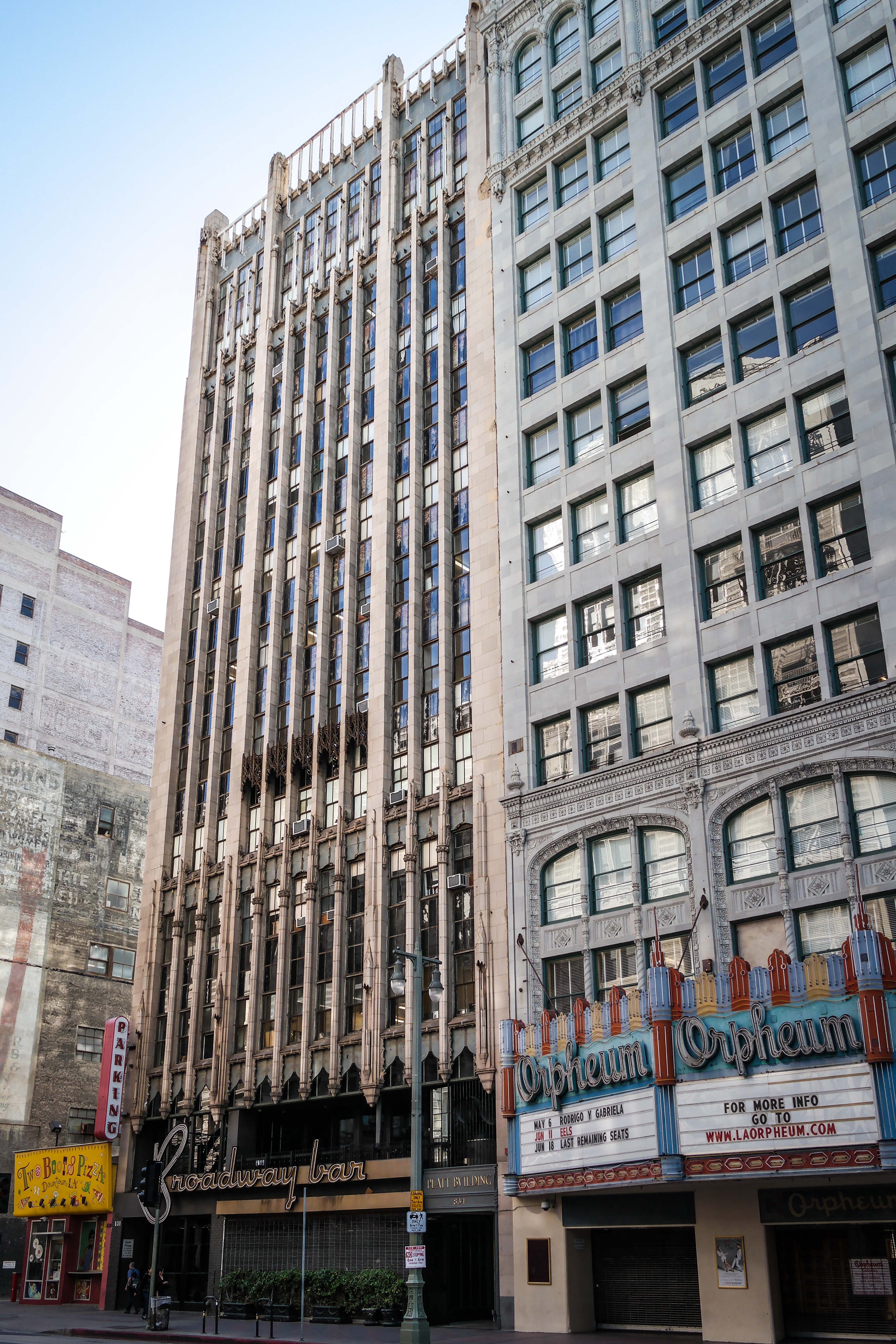 The Platt Building (left), also known as the Anjac Fashion Building, in the Broadway Theater and Commercial District of Los Angeles